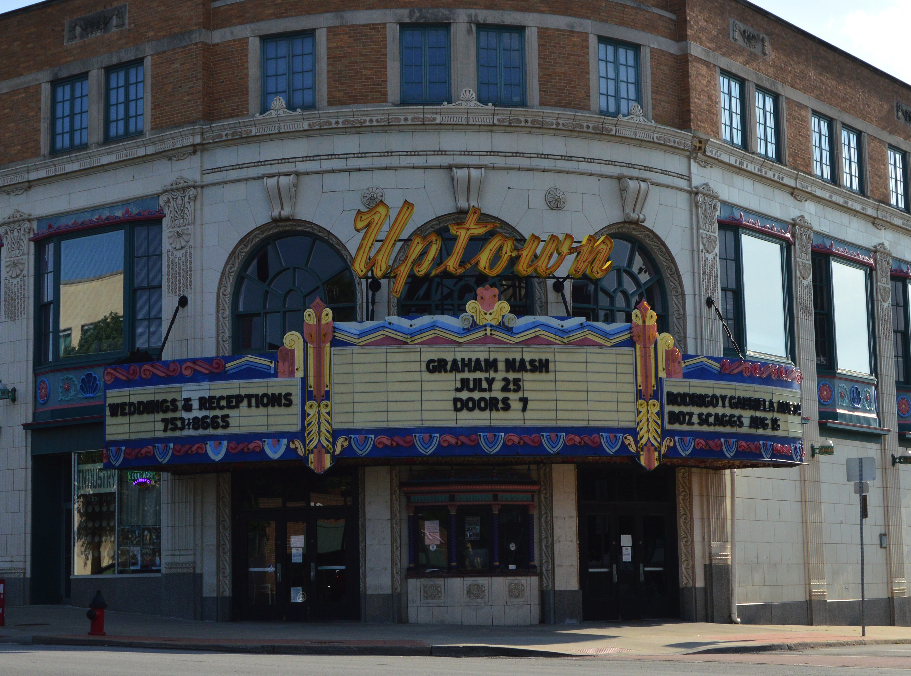 Uptown Theater in Kansas City, Missouri